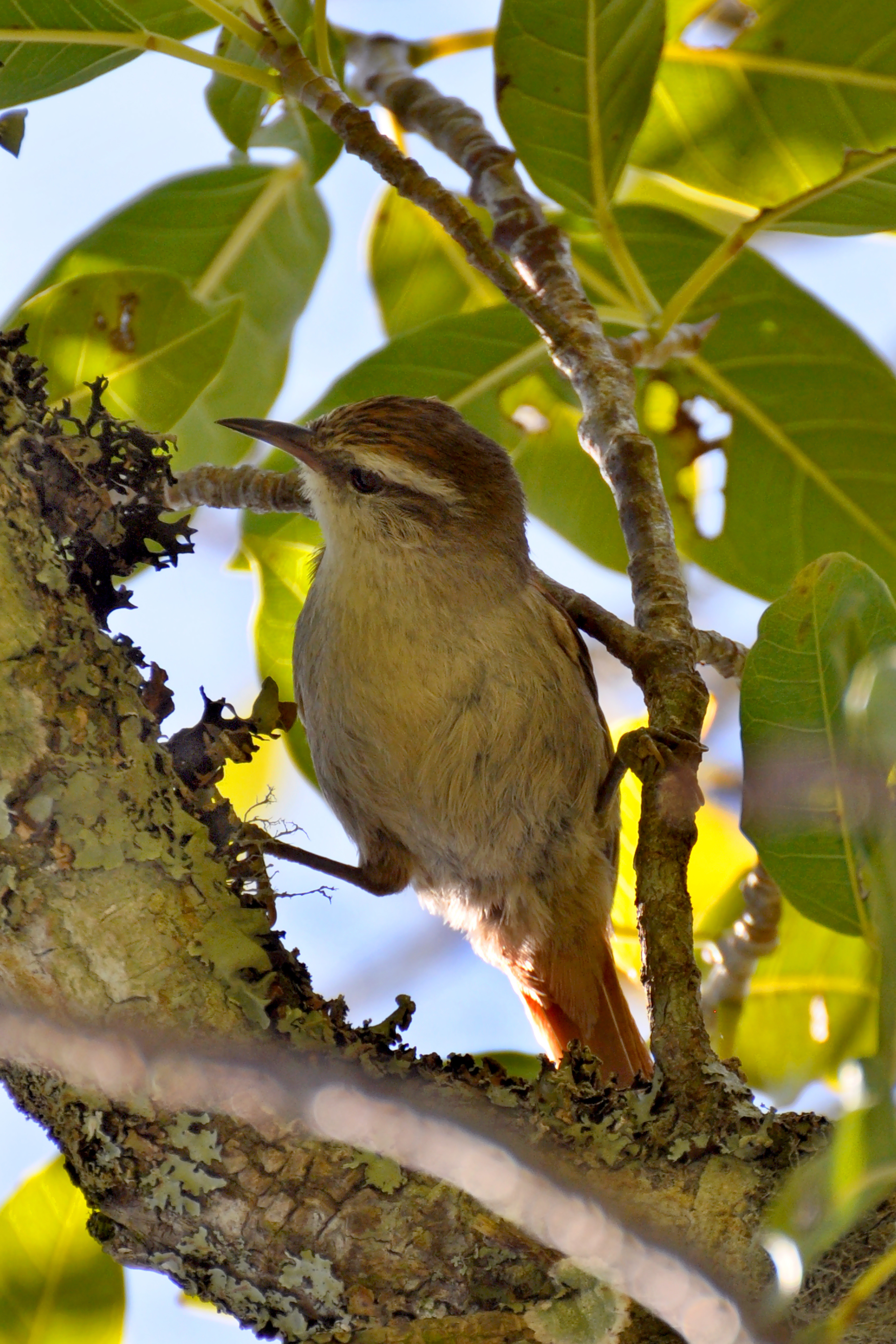 Cranioleuca pyrrhophia pyrrhophia photographed in the Negra Lagoon border, Uruguay, in November 2010.